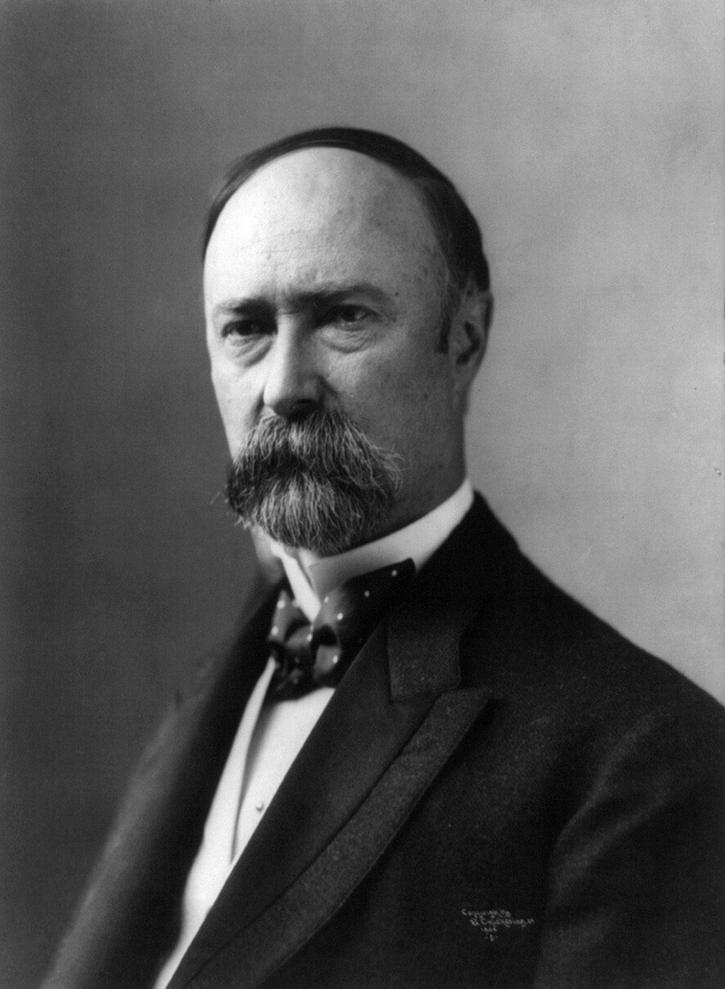 Charles W. Fairbanks, 26th Vice President of the United States